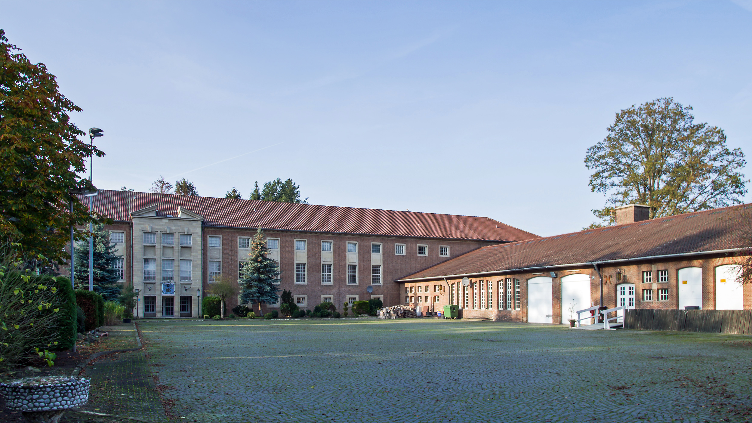 Building/property of the former overseas radio receiving station Lüchow-Woltersdorf in northern Germany (this use was discontinued in 1987).